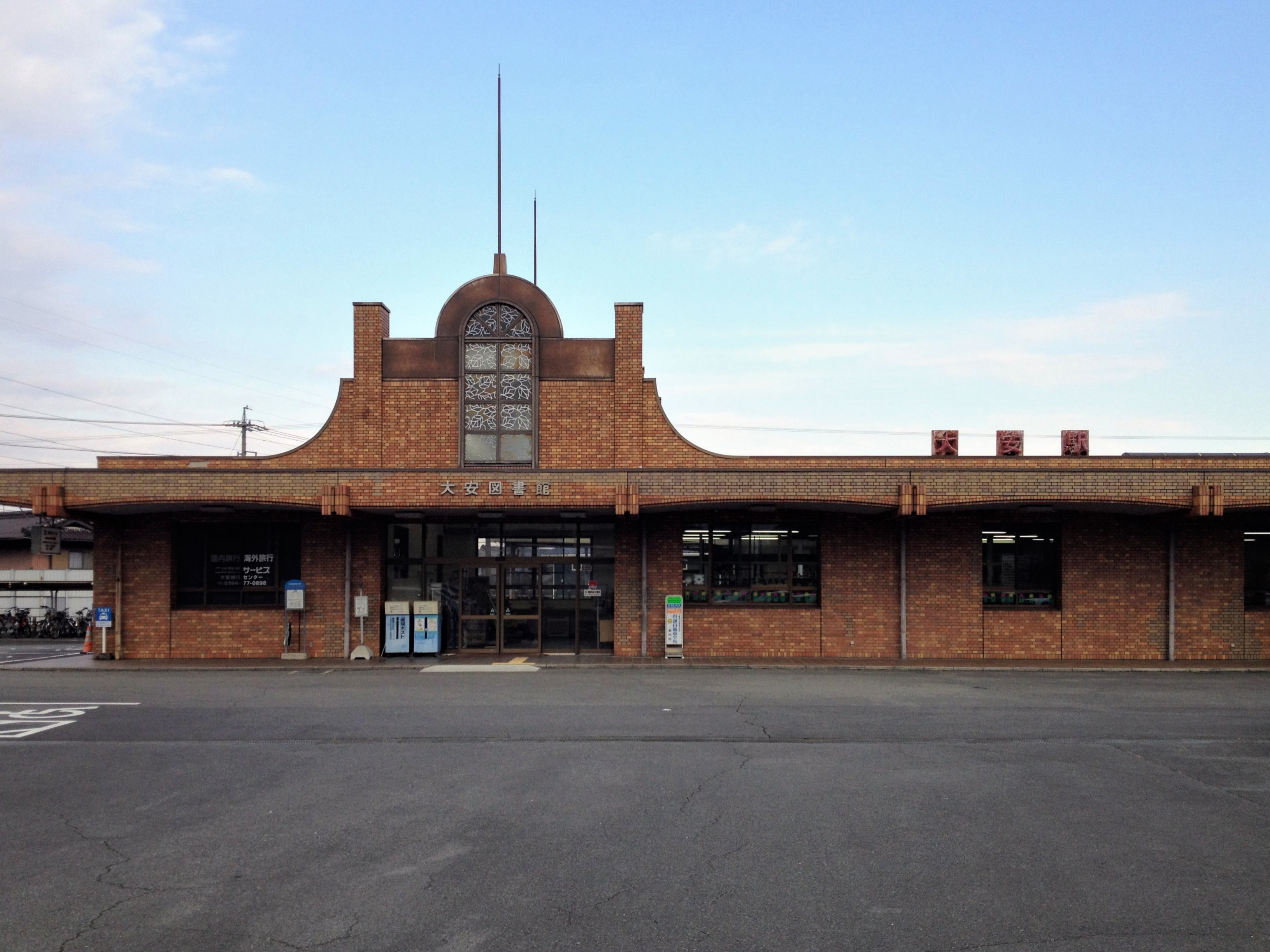 Daian Station in Inabe, Mie Prefecture, Japan. Inabe City Daian Library adjoins the station.